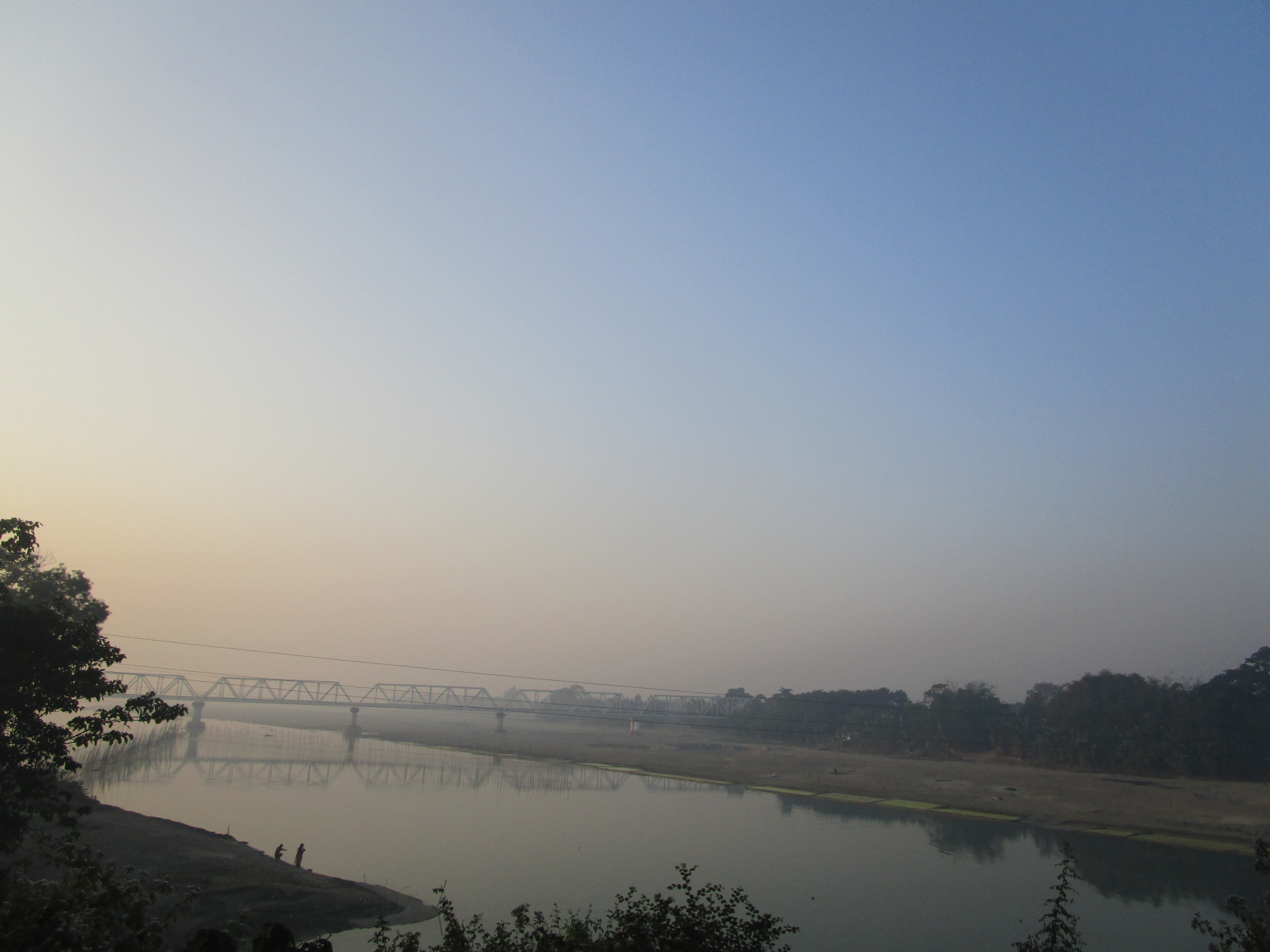 Kaljani River at at Tufanganj, Cooch behar.